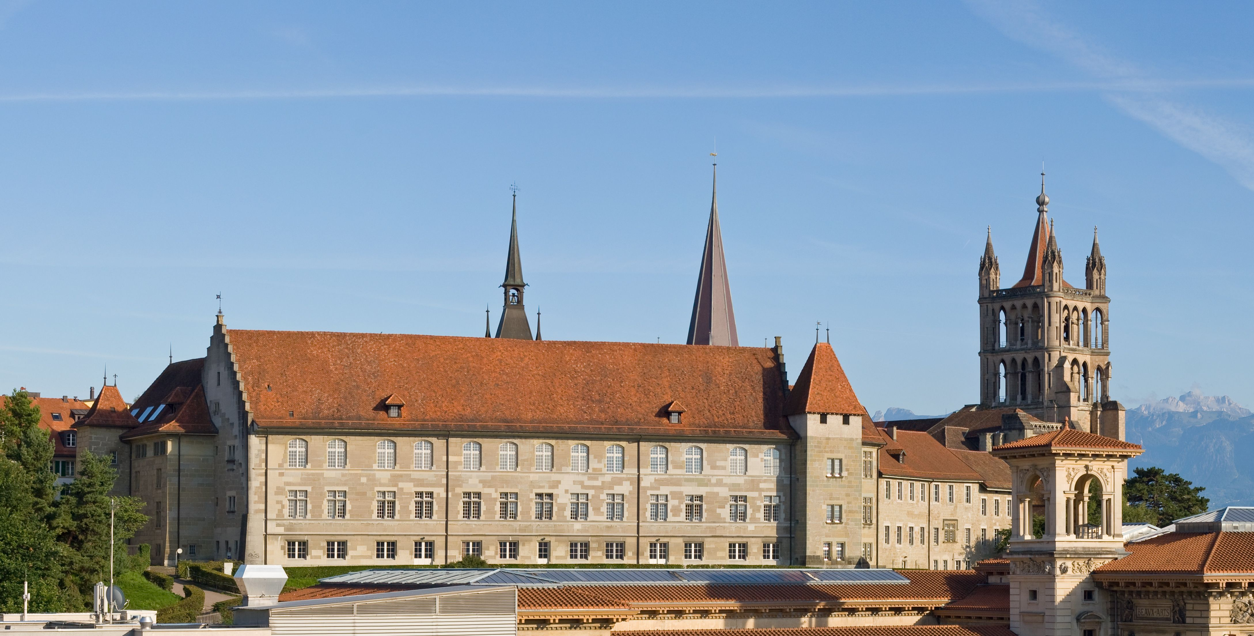 View on the old Academy of Lausanne. View on the old academy of Lausanne.